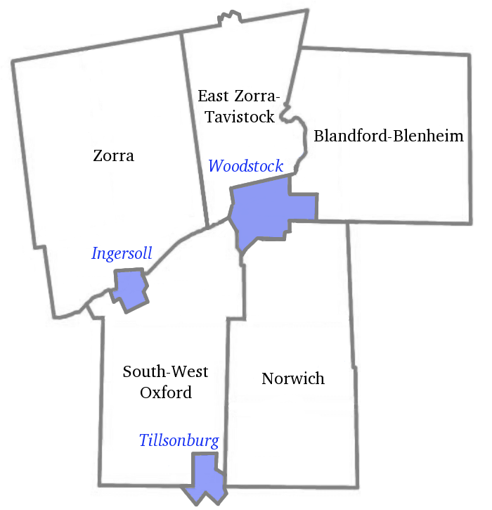 Townships in Oxford County, Ontario as revised in 1975. Based on historic boundaries; rendering of boundaries and community locations is for descriptive purposes whose location may not be exact.